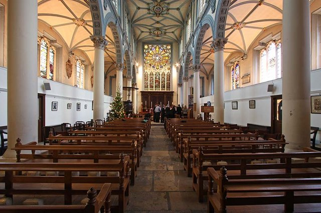 Inside the nave of St Katharine Cree parish church, Leadenhall Street, London, looking east to the altar